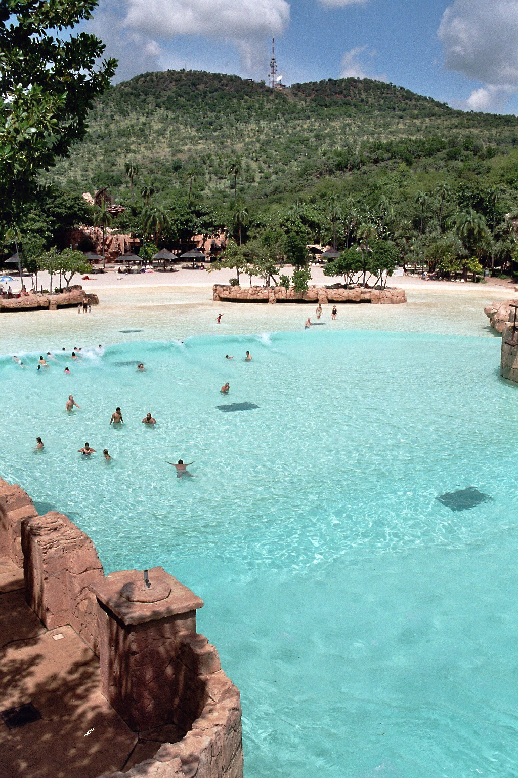 Sun City South Africa